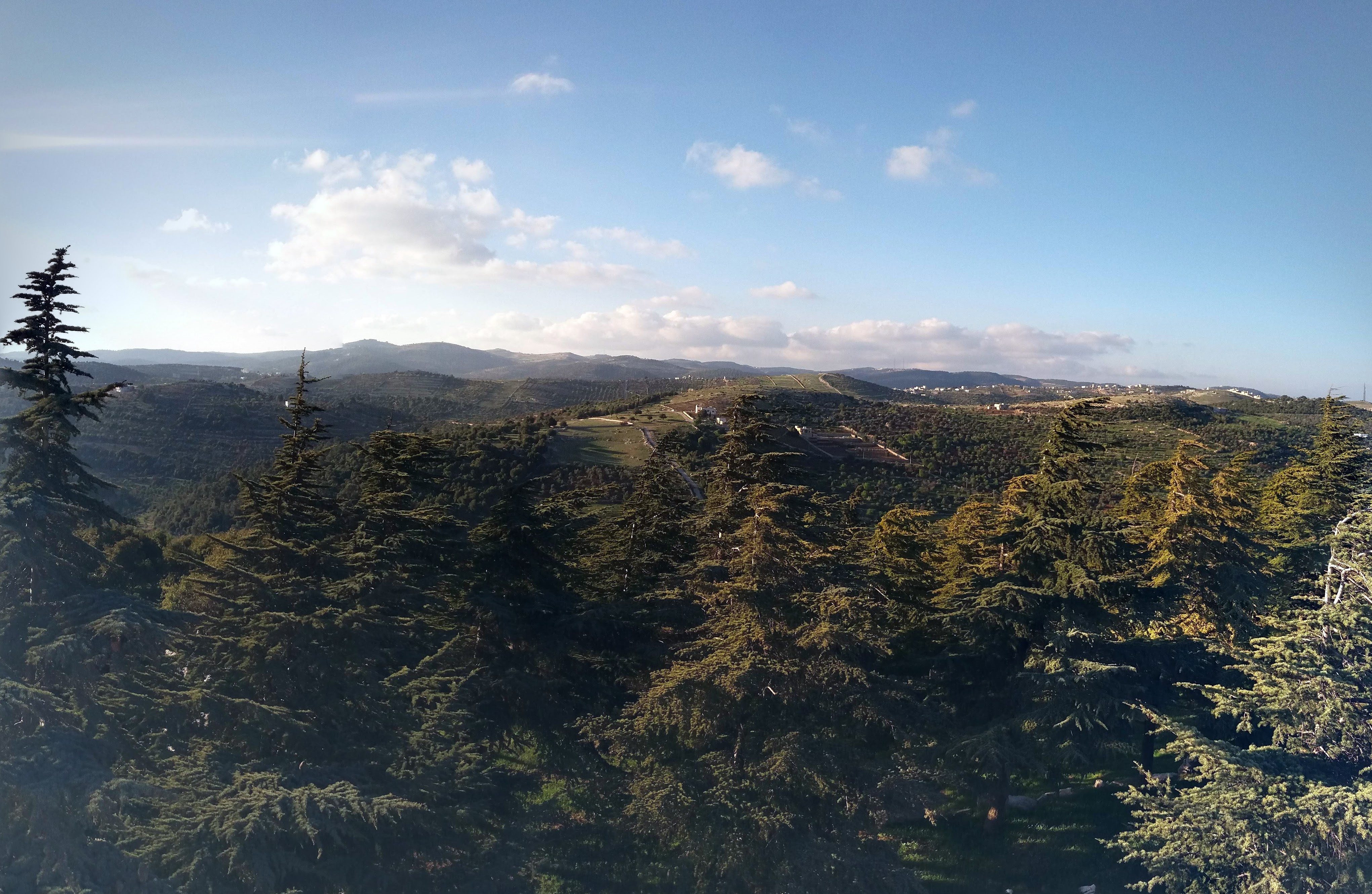 The Cedar Forest Reserve to the south of the city of Sakib, Jordan